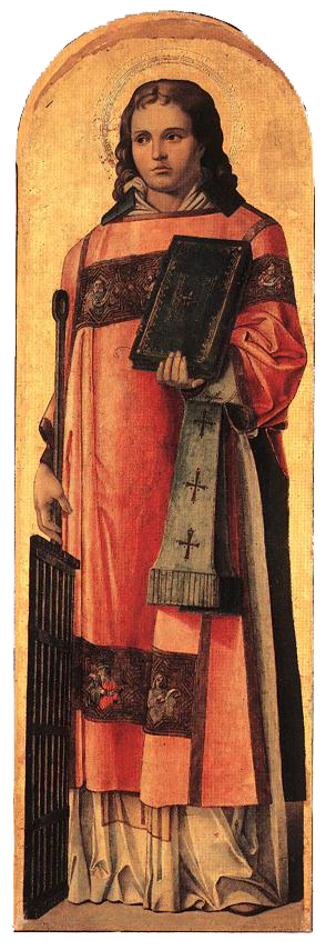 VIVARINI, Bartolomeo St Lawrence the Martyr Panel Santo Stefano, Venice This is a stub. Click here to expand it.Authority control VIAF: 128000053 GND: 4437681-9